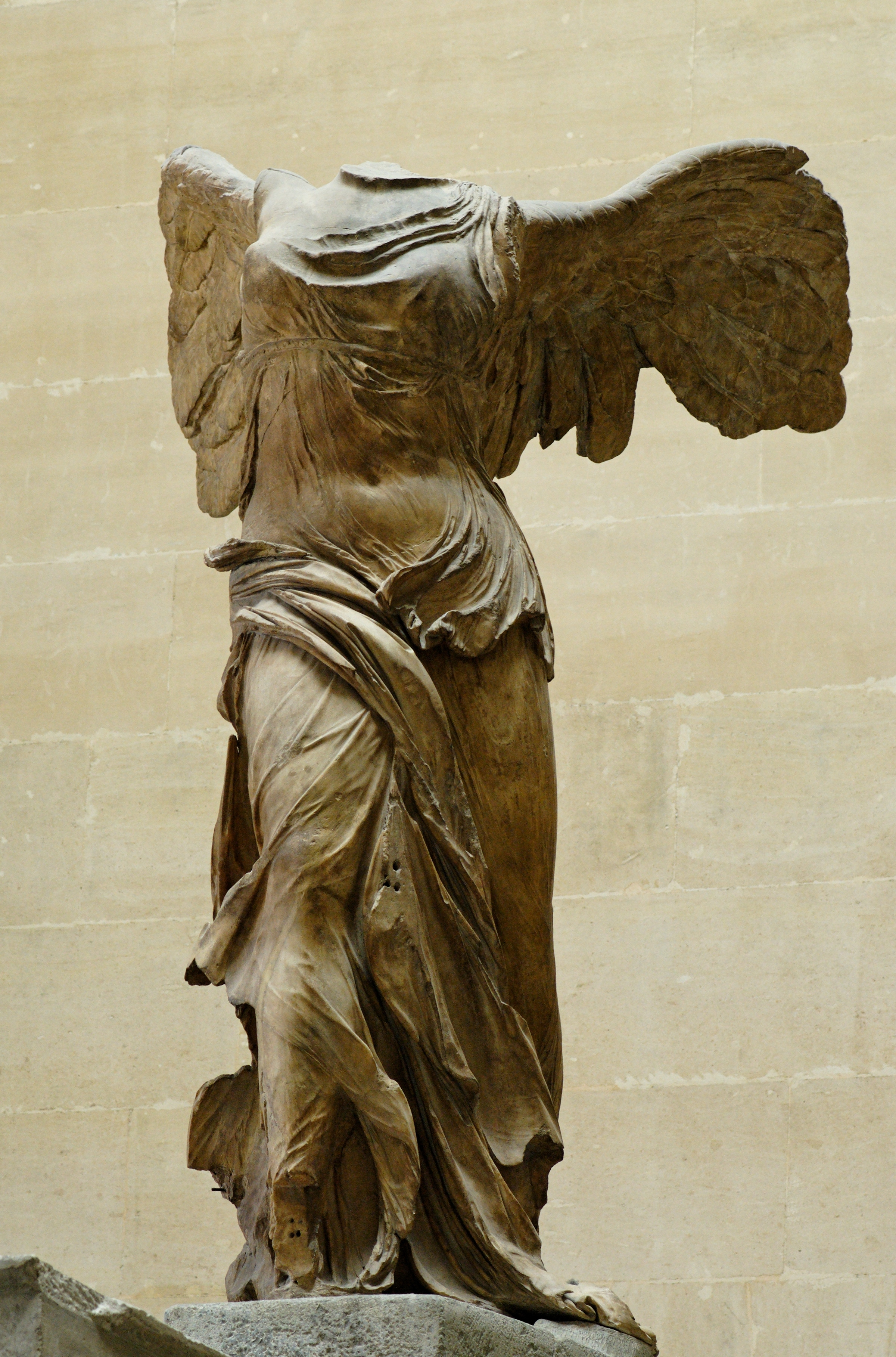 Winged Nike of Samothrace. Parian marble, ca. 190 BC? Found in Samothrace in 1863.